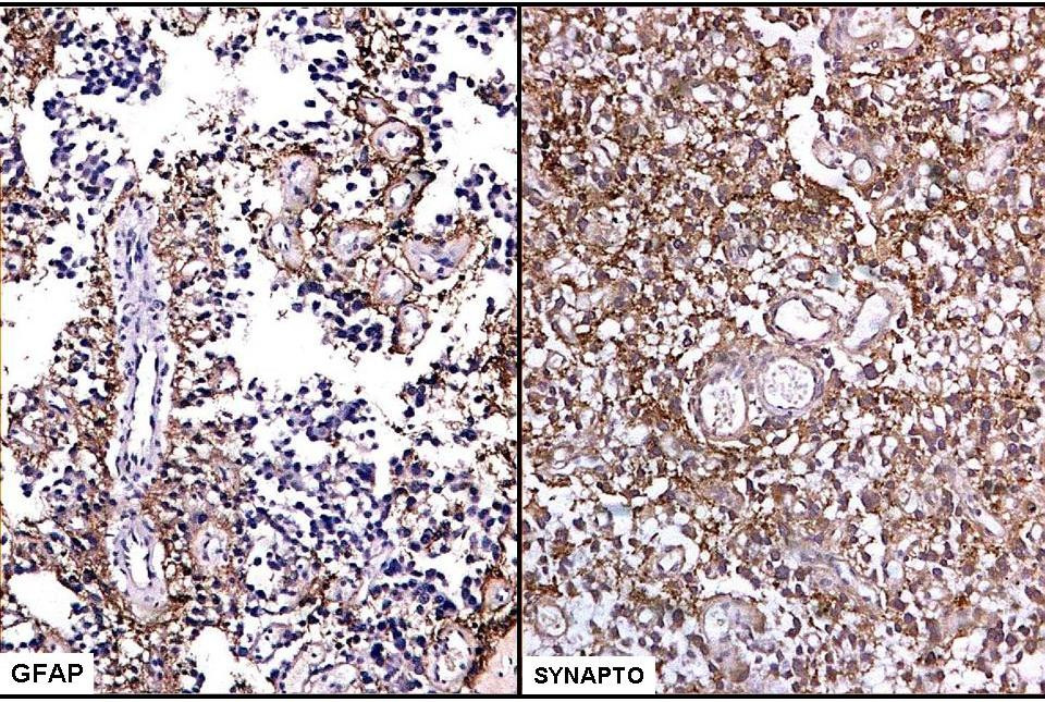 Papillary glioneuronal tumor: The pseudopapillae formed by glial fibrillary acid protein positive cells and synaptophysin positive neuronal cells forming solid areas. GFAP = glial fibrillary acid protein, Synapto = synaptophysin.